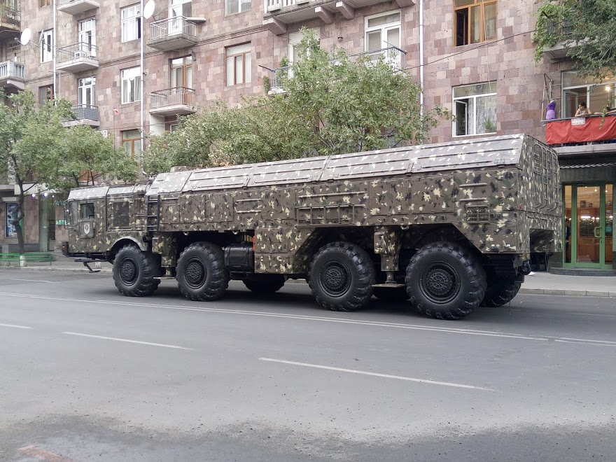 9K720 Iskander in Yerevan